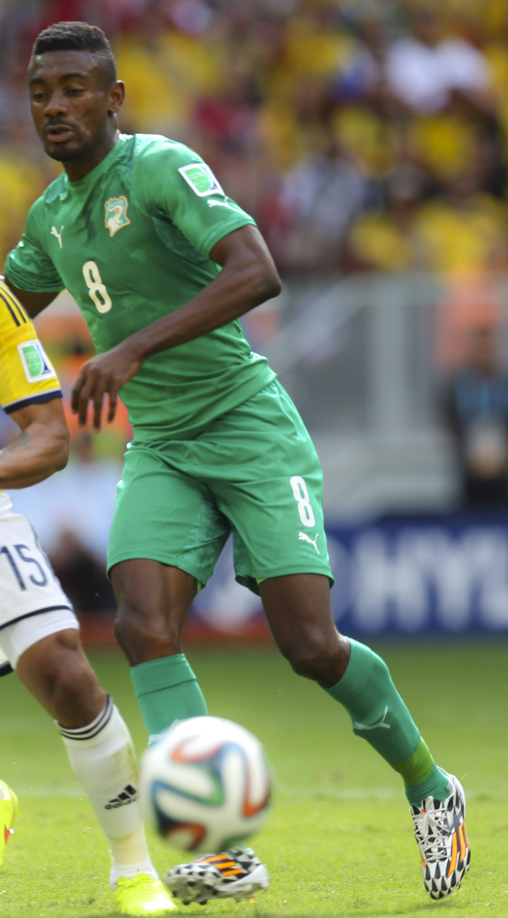 Colombia and Ivory Coast match at the FIFA World Cup 2014-06-19